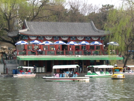 Visitors having tea on a port of Zizhuyuan